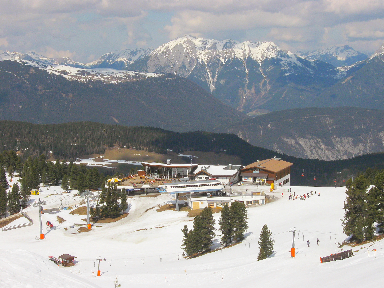 Upper station of funicular Hochötz with view to Mieming mountain ridge (Tyrol).